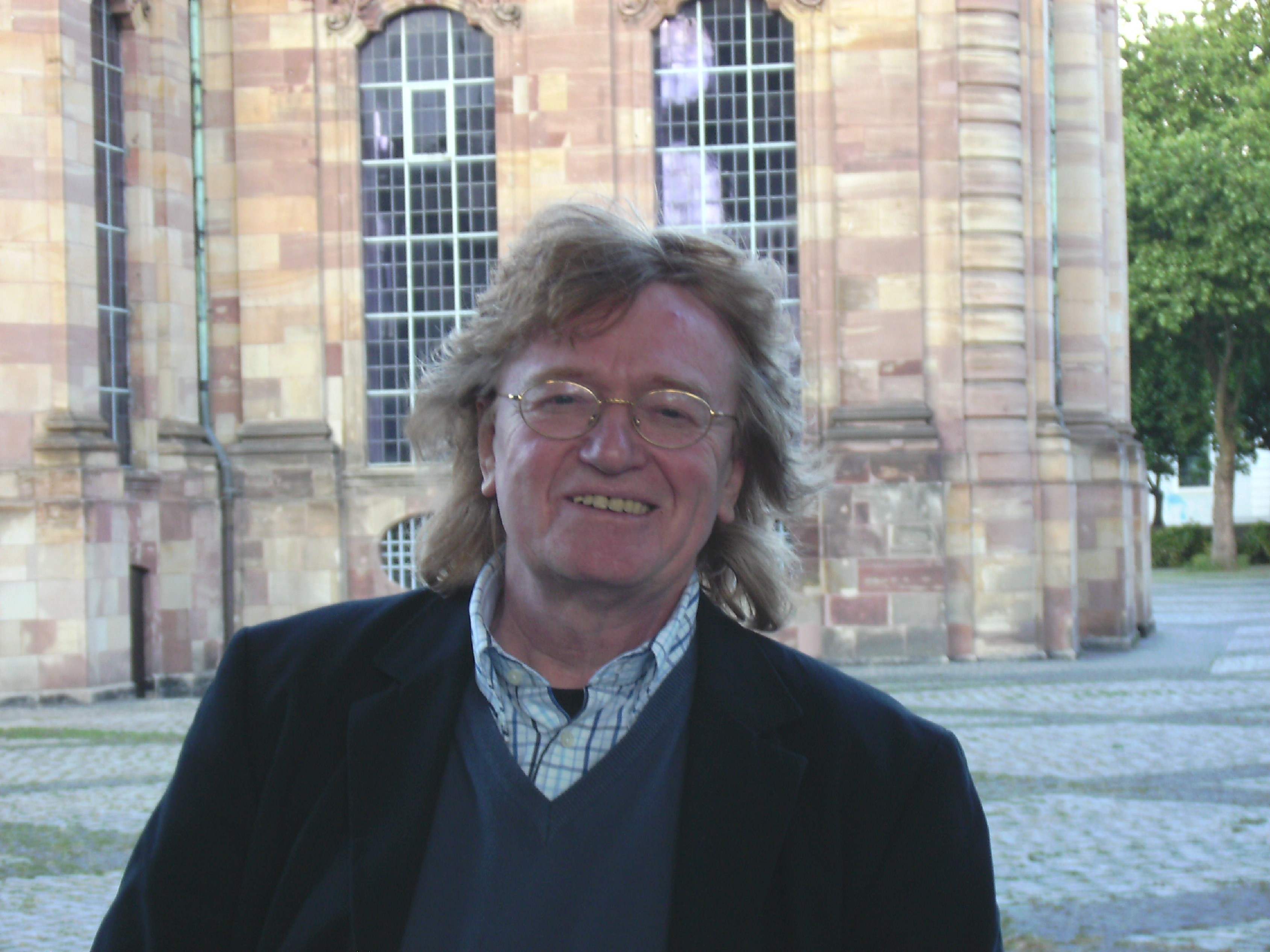 Portrait of german writer and artist Alfred Gulden